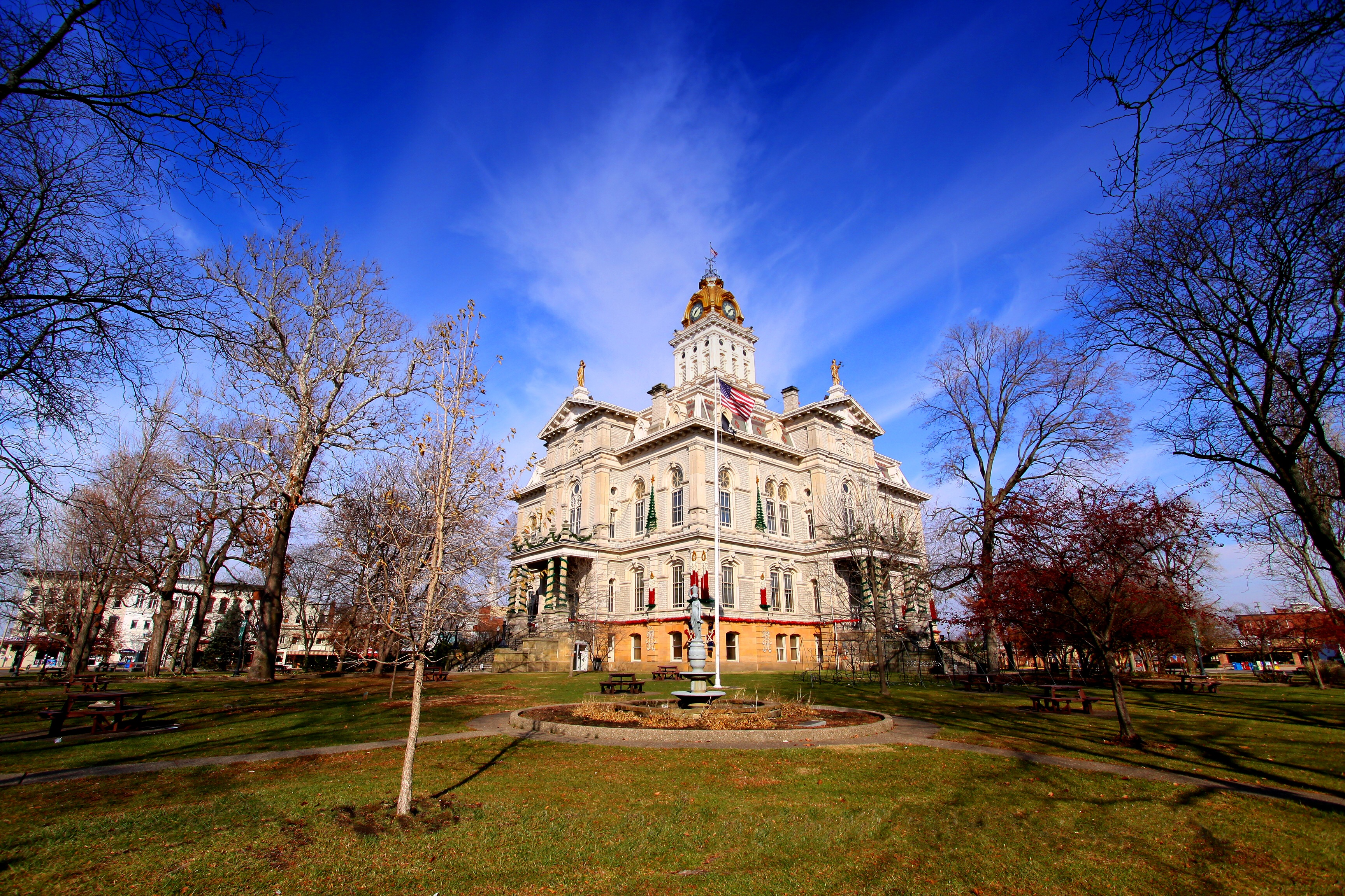 Newark Court House